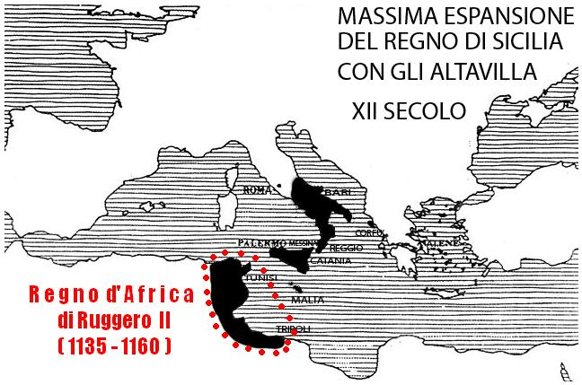 Map of the Kingdom of Roger II in 1160. Pinpointed in red his "Kingdom of Africa". Map done using initially the Commons file: Regno di Sicilia - Altavilla 1160.jpg